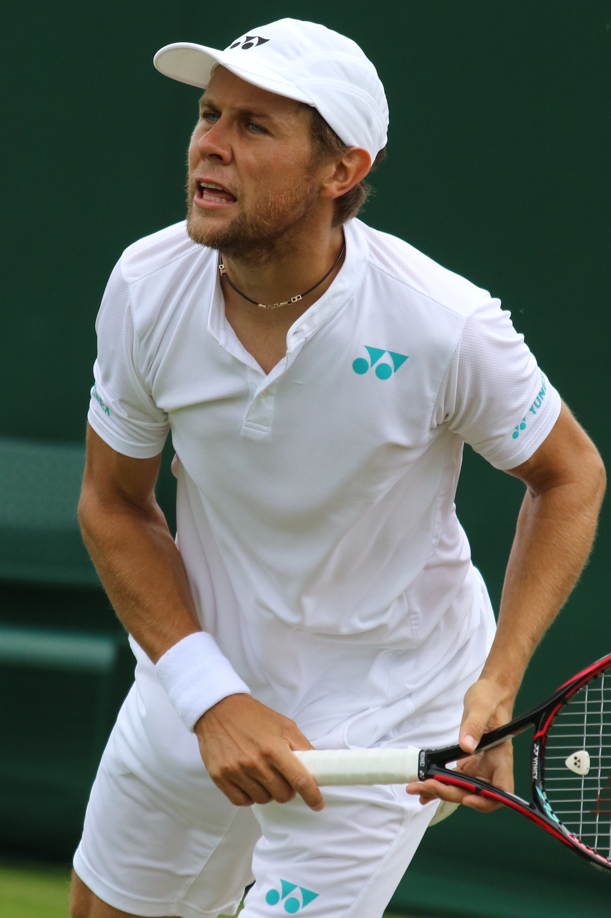 Albot WM17 (20)